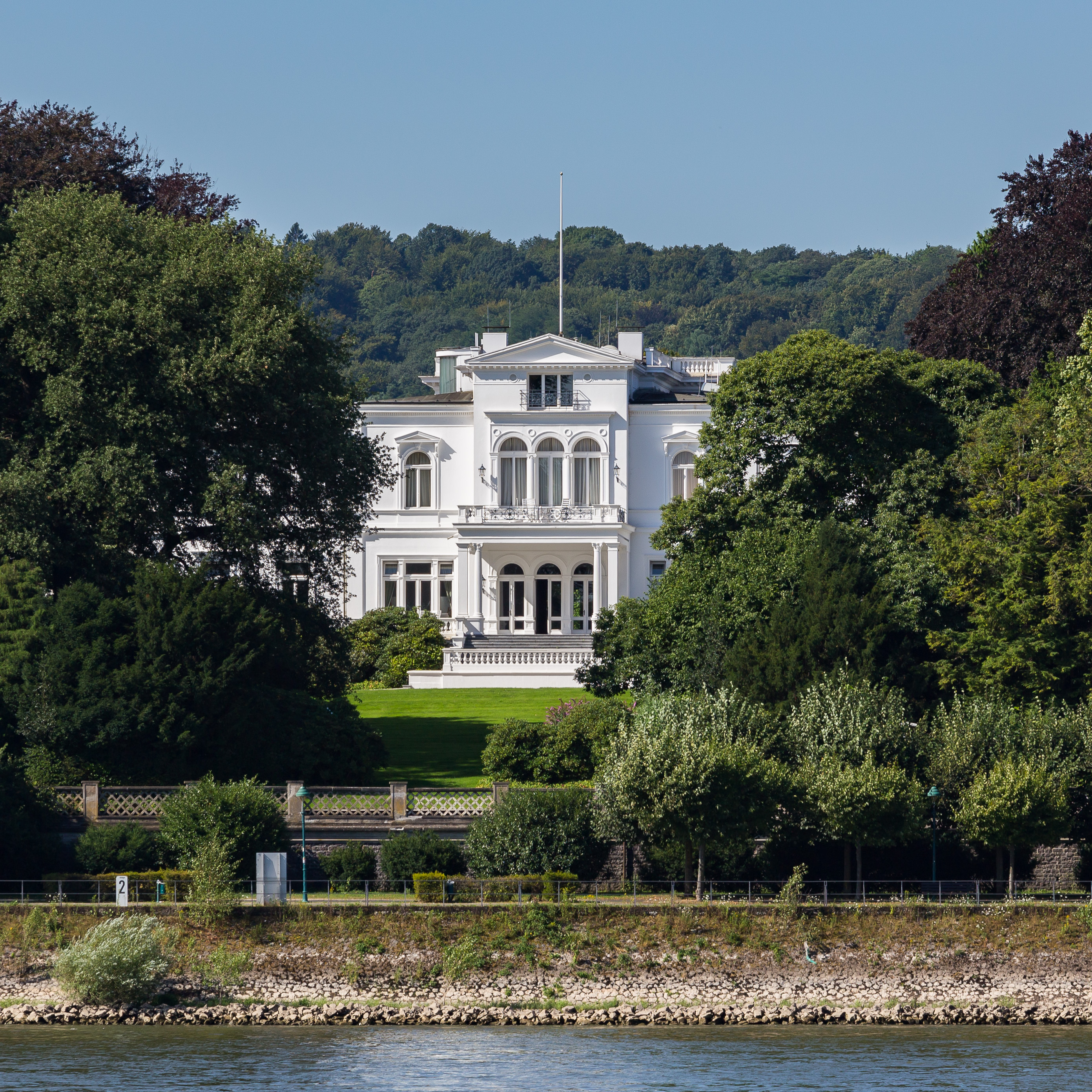 Hammerschmidt Villa, Bonn: river side – view from opposite Rhine river shore